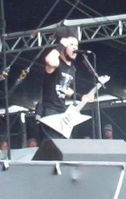 Wayne Static frontman of Static-X.